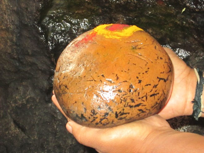 Rare Saligramam of Lord Hanuman found in the temple premises